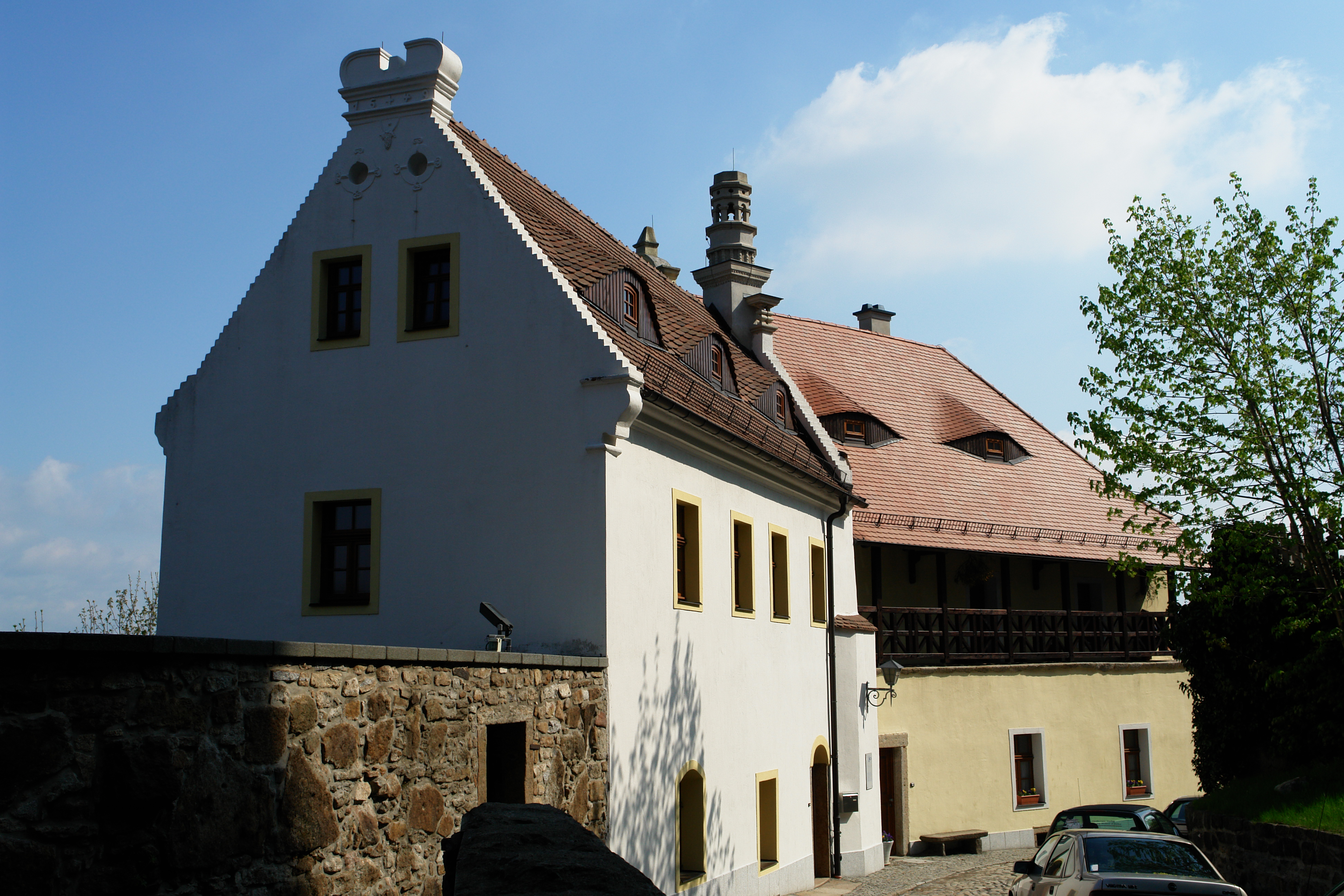 Judge house of the Ortenburg in Bautzen, Germany.